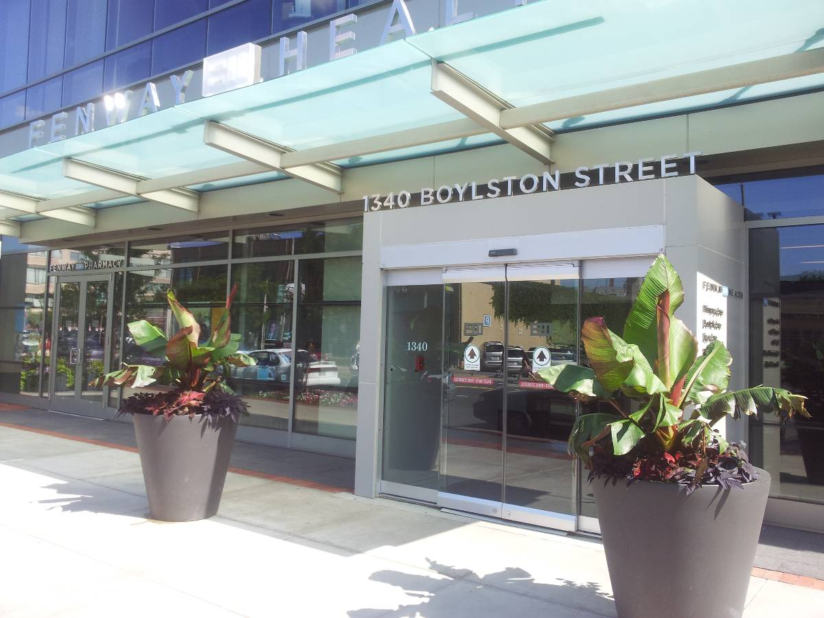 Fenway Health Ansin Building at 1340 Boylston St., Boston, MA. Front entrance.